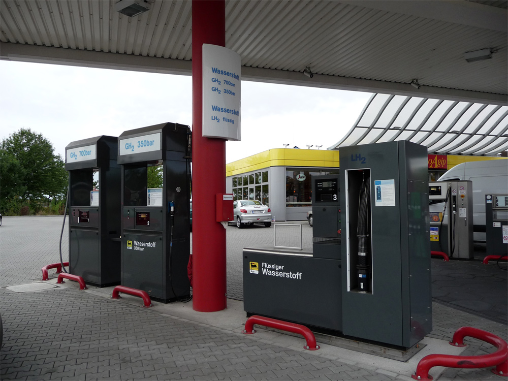 Hydrogen filling dispensers at Agip station in Frankfurt, at southern entry to Industriepark Hoechst